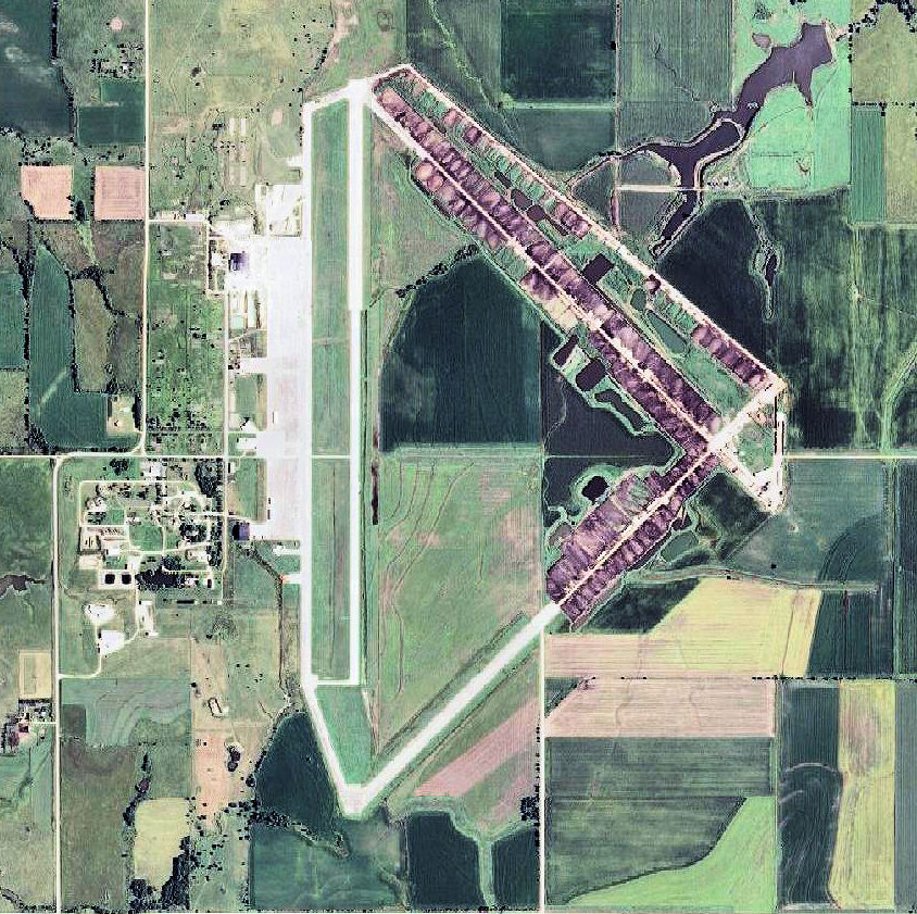 USGS digital orthophoto of Herington Regional Airport, formerly Herington Army Airfield, in Kansas